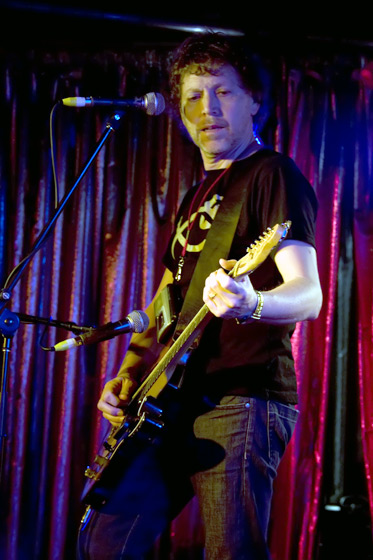 Kim Salmon & the Surrealists Ding Dong Lounge, Melbourne November 2008